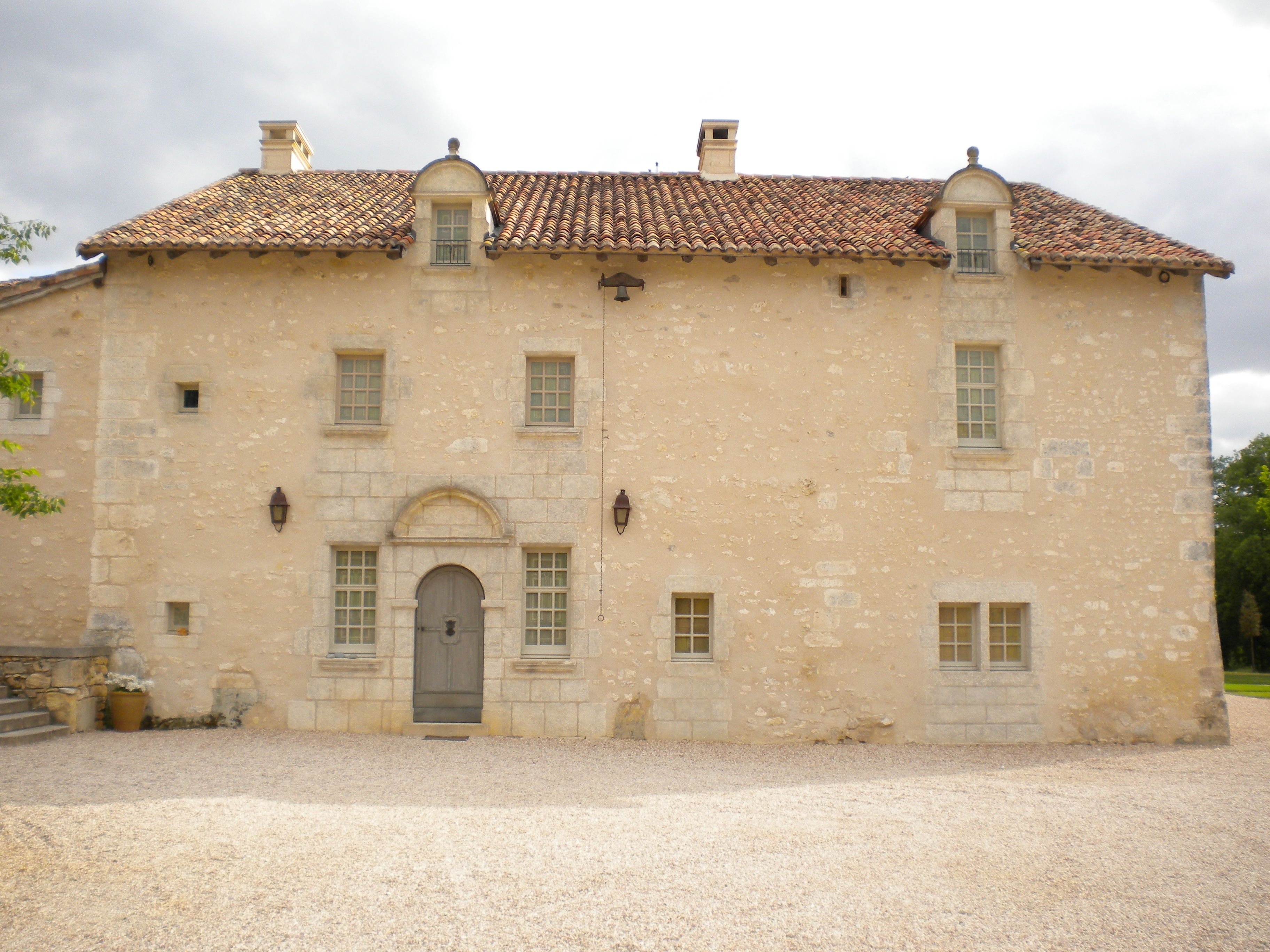 The seventeenth century manor house (manoir) of Fronsac, commune of Vieux-Mareuil, Dordogne, France.